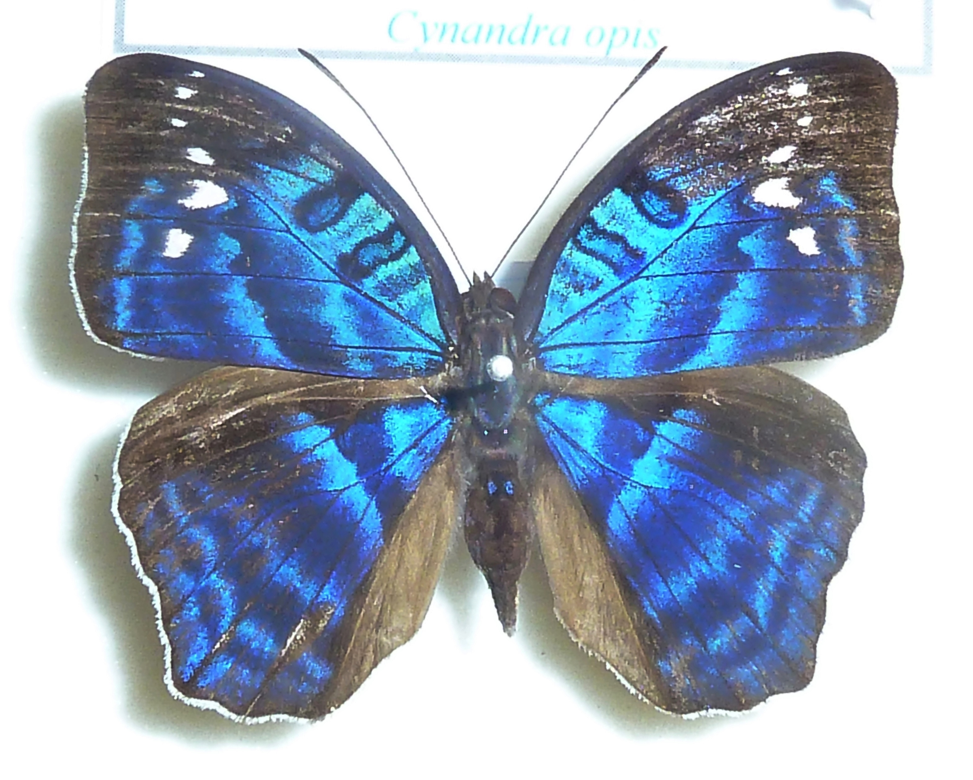 Brilliant nymph in a collection of J Dobson